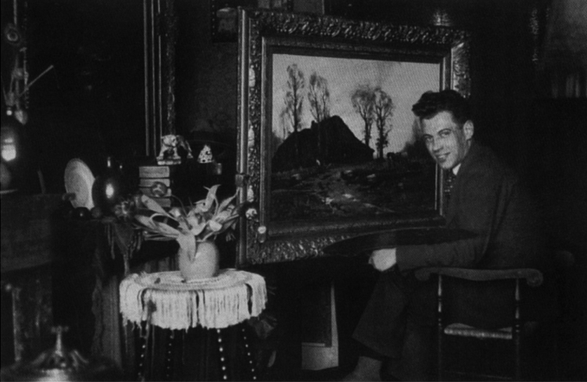 Arie Zwart in his studio in the Appelstraat in The Haag.